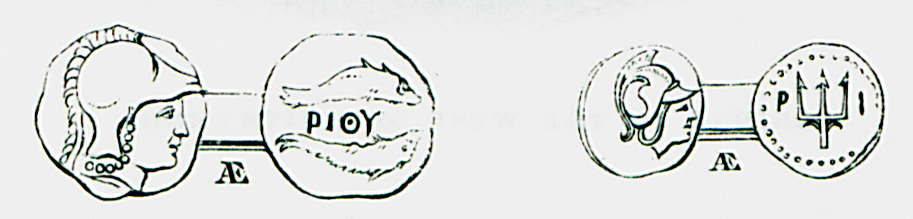 Illustration from Travels in Crete, London, John Murray, 1837, by Robert Pashley